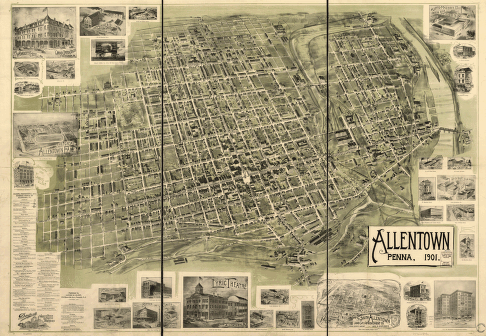 Allentown, Pennsylvania in the 1900s.